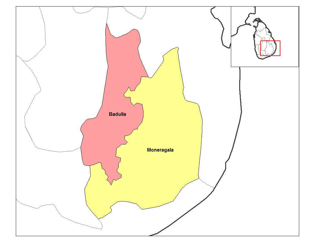 Map of the districts of Uva province in Sri Lanka. Created by Rarelibra 12:59, 19 September 2006 (UTC) for public domain use, using MapInfo Professional v8.5 and various mapping resources.